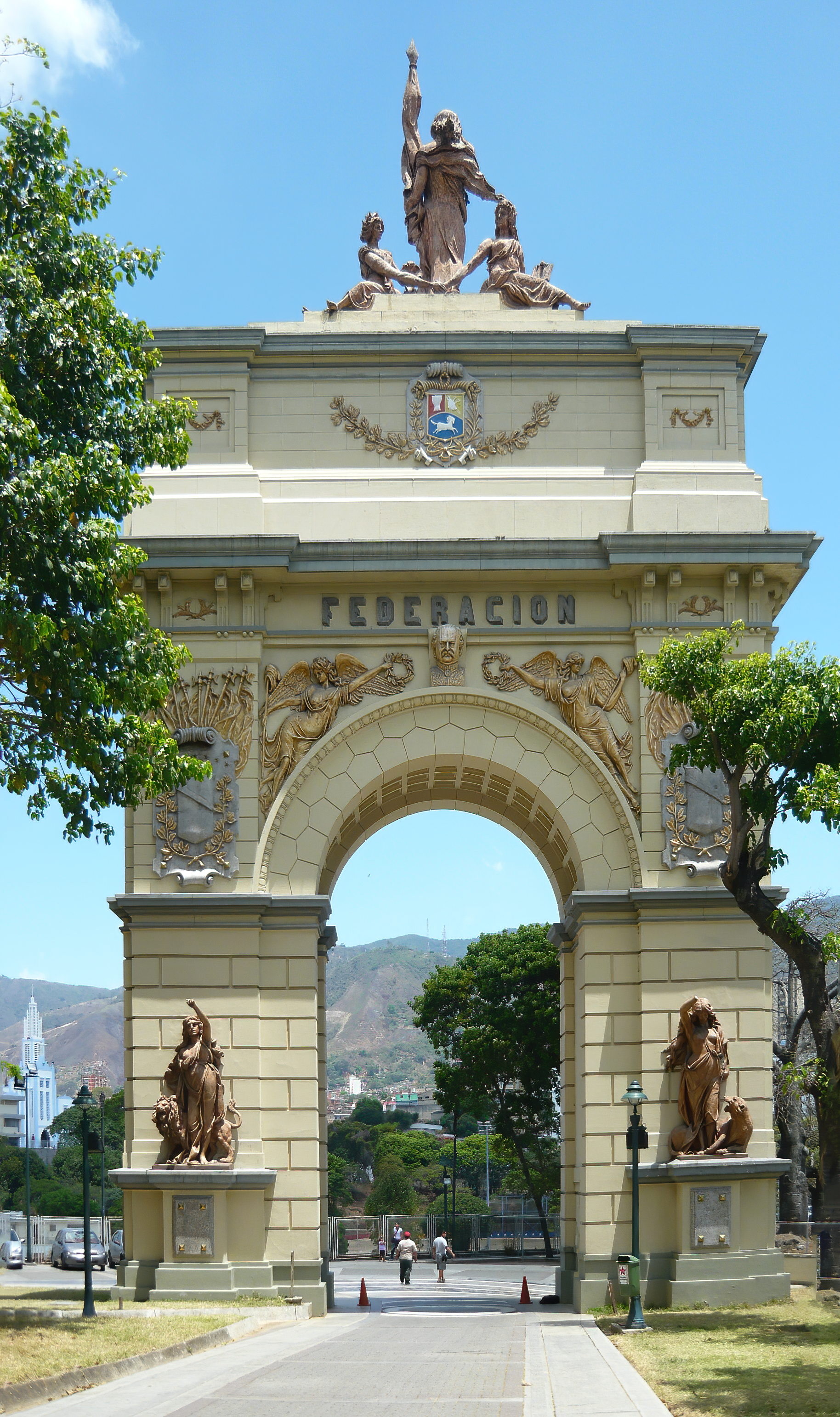 Imponente y majestuoso el Arco de la Federación en la entrada al parque del Calvario